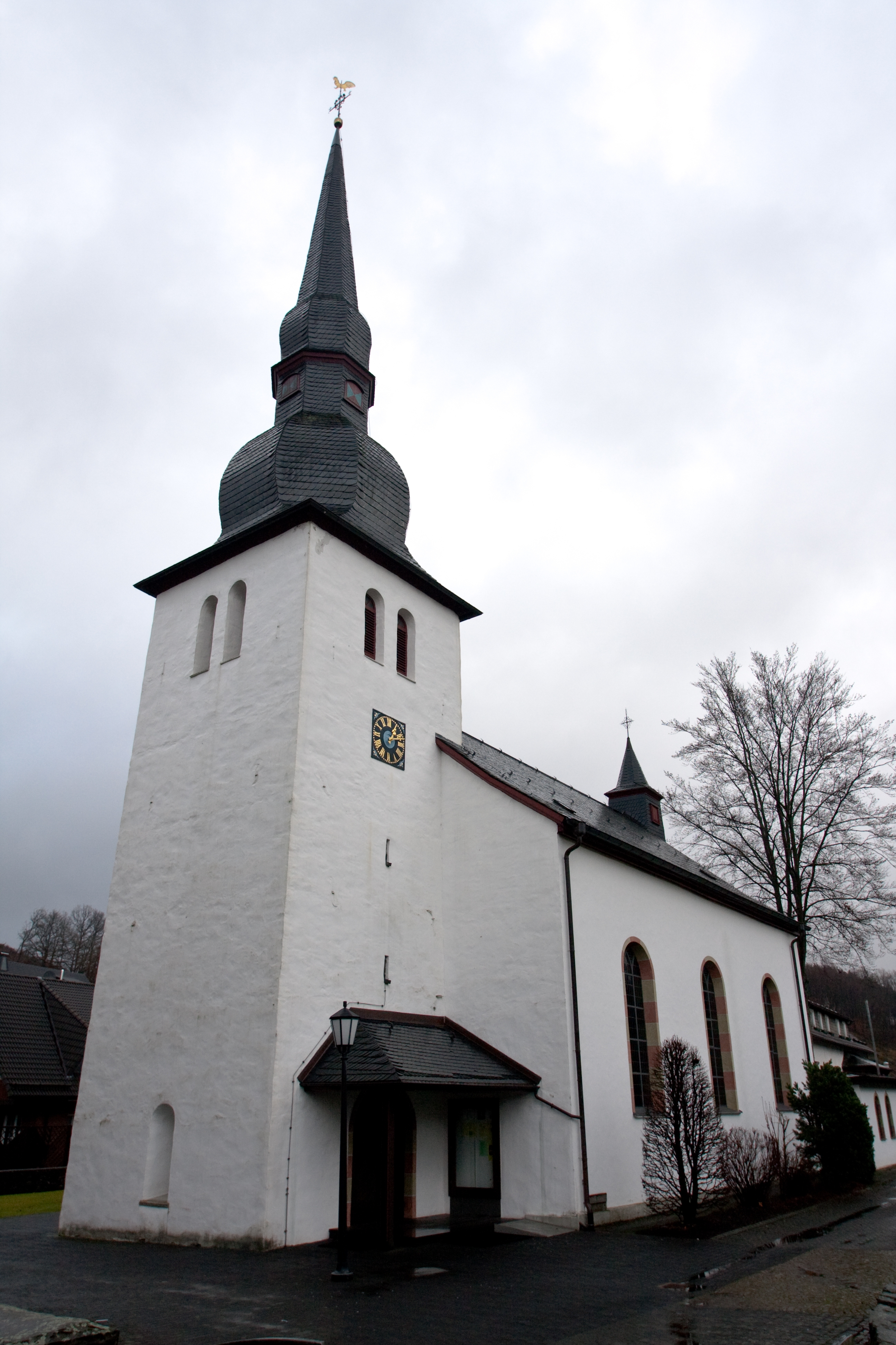 Church of St. Georg at Neuenkleusheim (Olpe) from the outside.